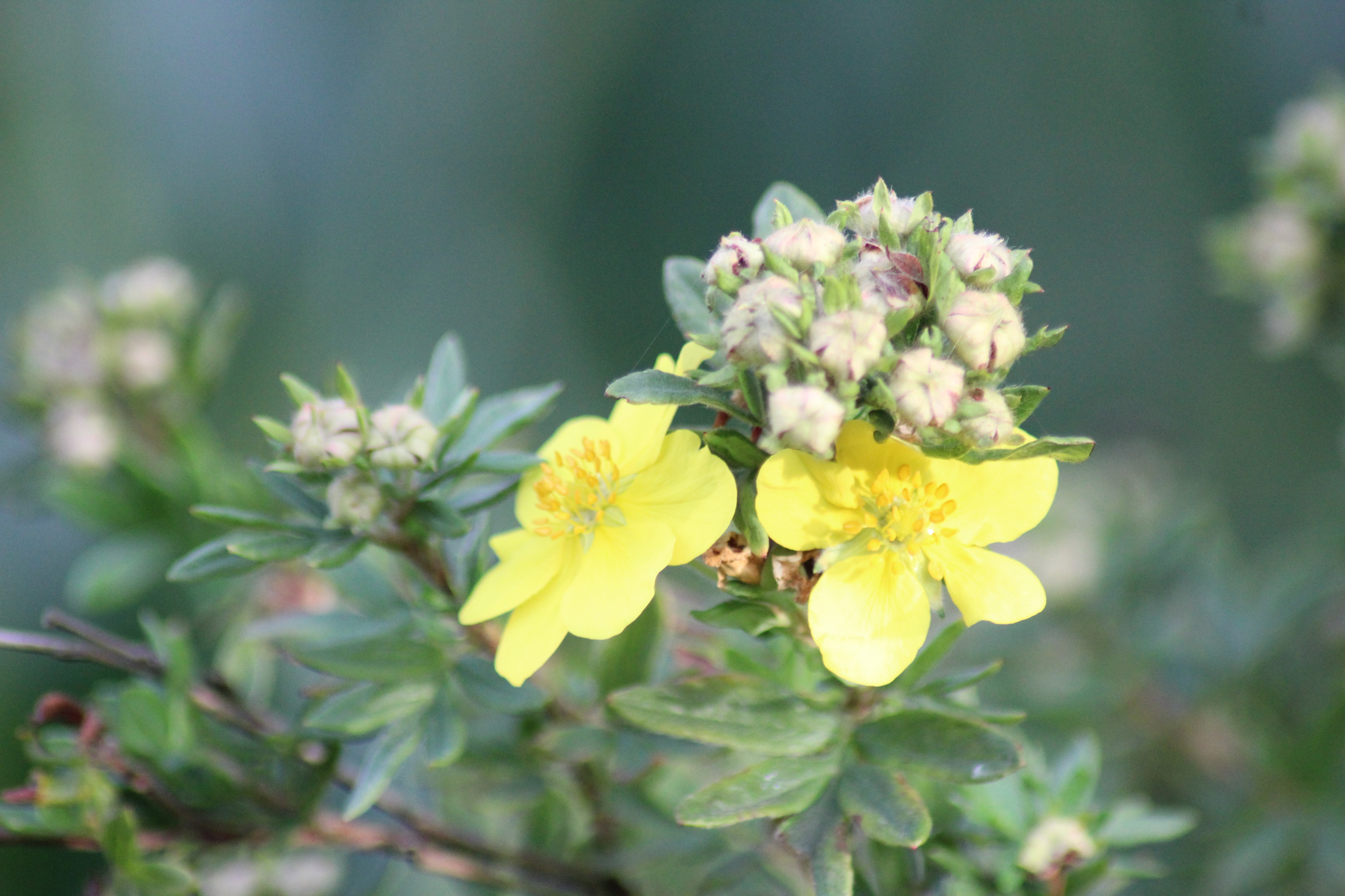 Shrubby cinquefoil (Dasiphora fruticosa) in a garden in Rotterdam